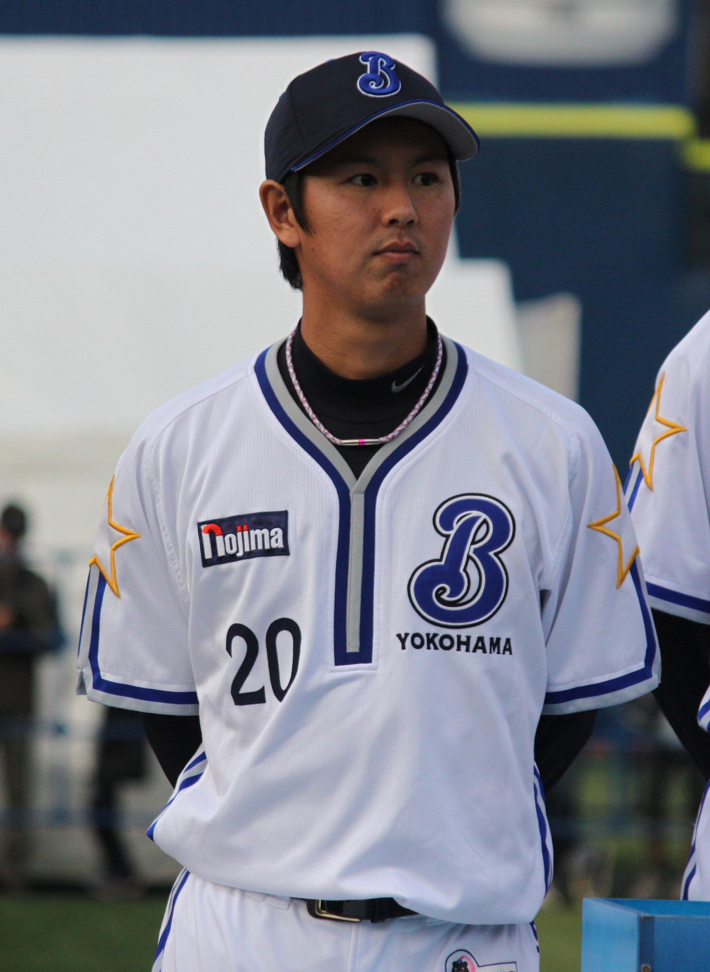 Kota Suda, pitcher of the Yokohama BayStars, at Yokohama Stadium.